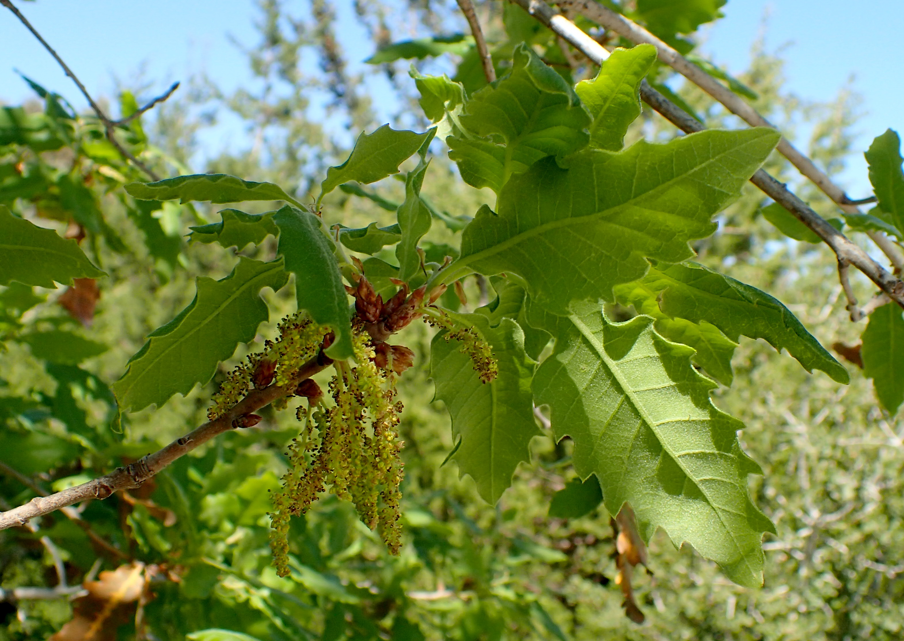 Quercus infectoria ssp. veneris in Akamas Botanical Garden, Cyprus